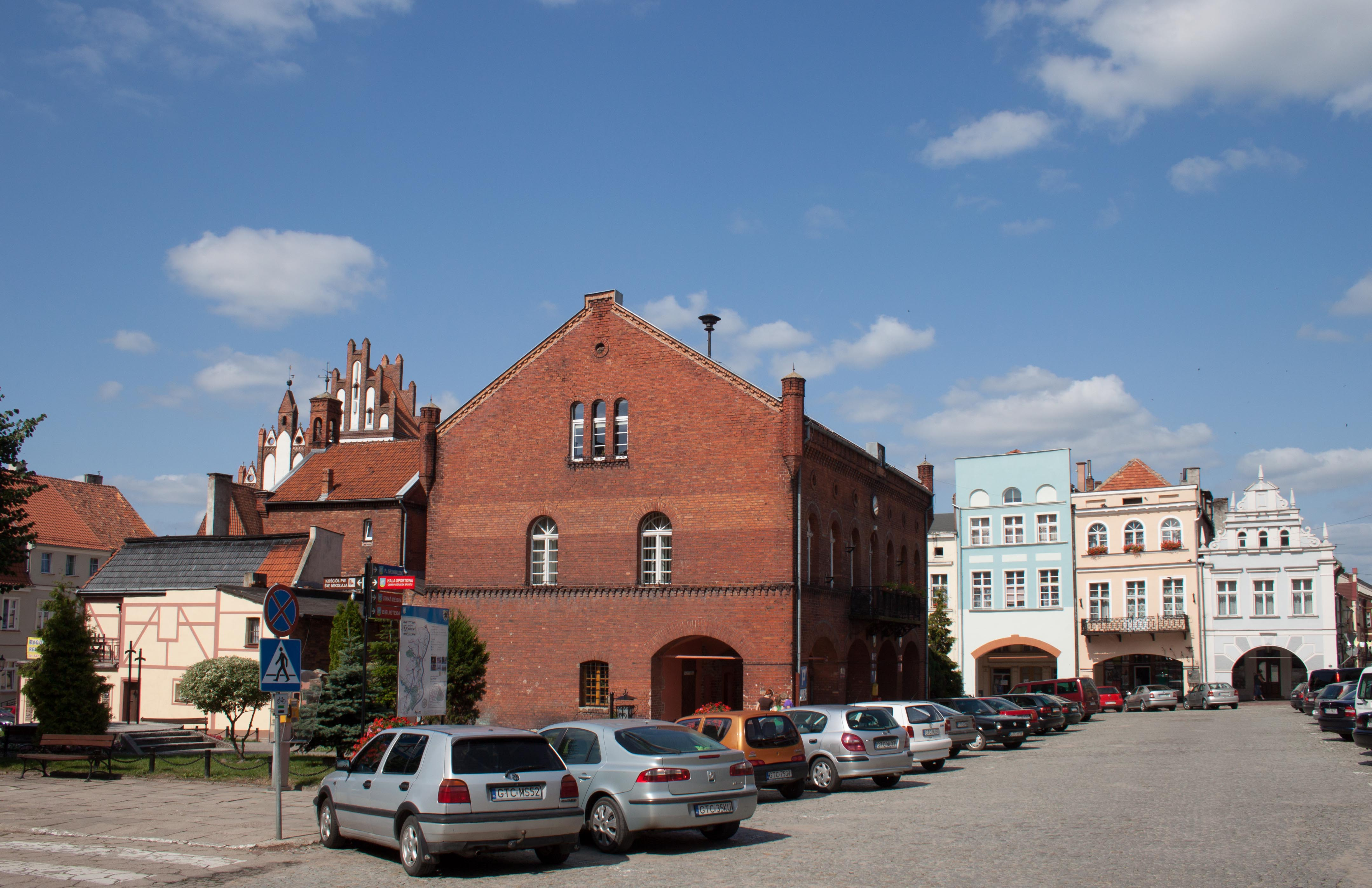 Municipal council in Gniew